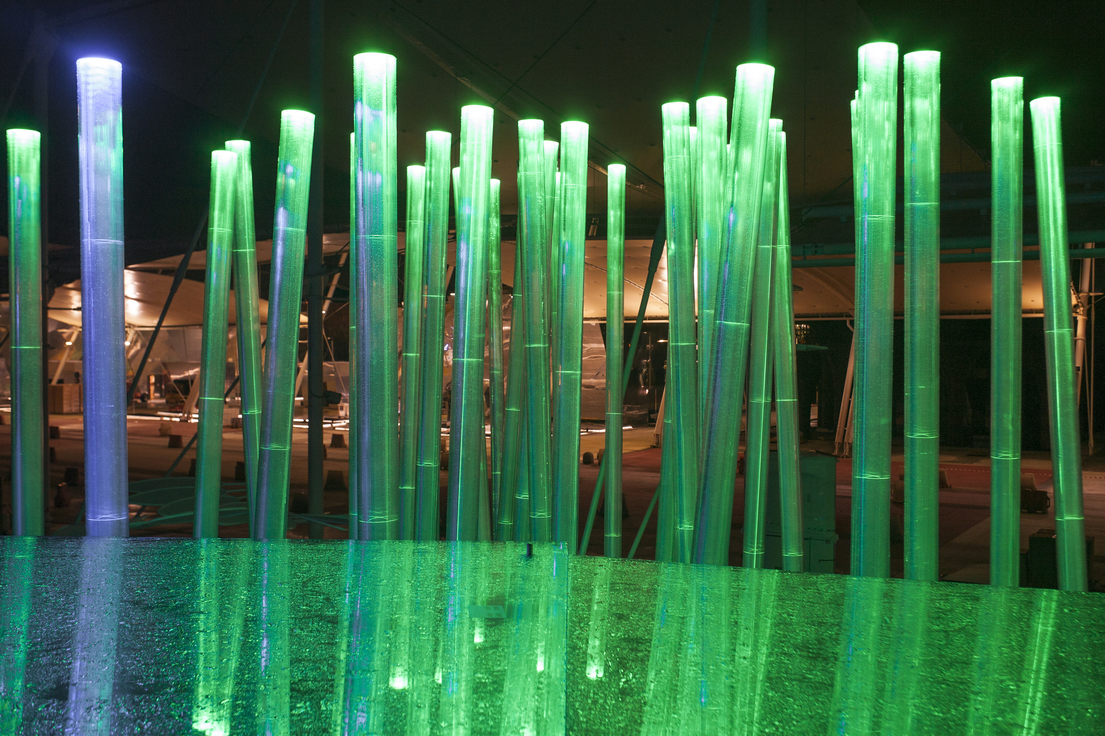 Enel Pavilion, Expo 2015, Milan, Italy